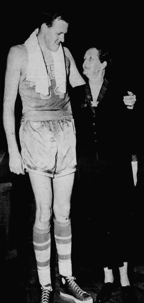 Professional basketball player Clyde Lovellette with his mother.